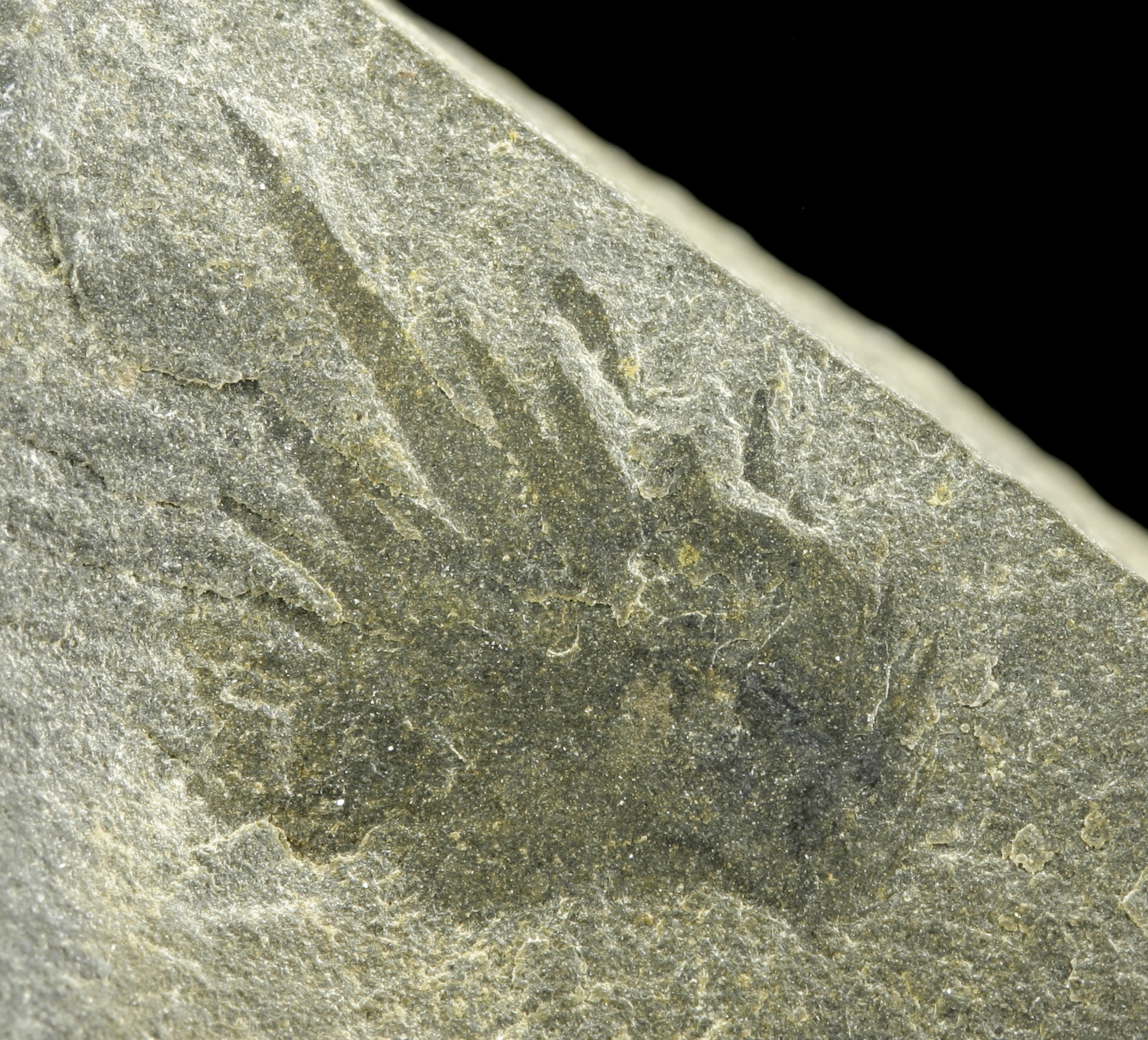 Wiwaxia corrugata from the Burgess Shale. Juvenile specimen, preserved sublaterally; mouthparts are visible to anterior, with dark transverse trace underneath, interpreted as anterior margin of foot. See also dry image.